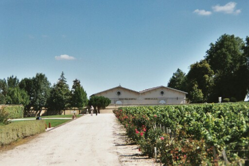 Château Pichon-Longueville-Baron in Pauillac